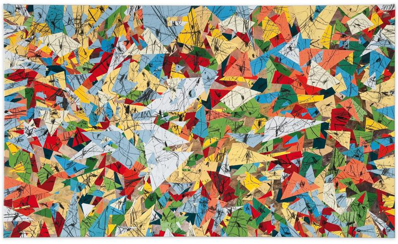 Thomas Steiner: Splitterbild,_120_x_200_cm,_2008.jpg